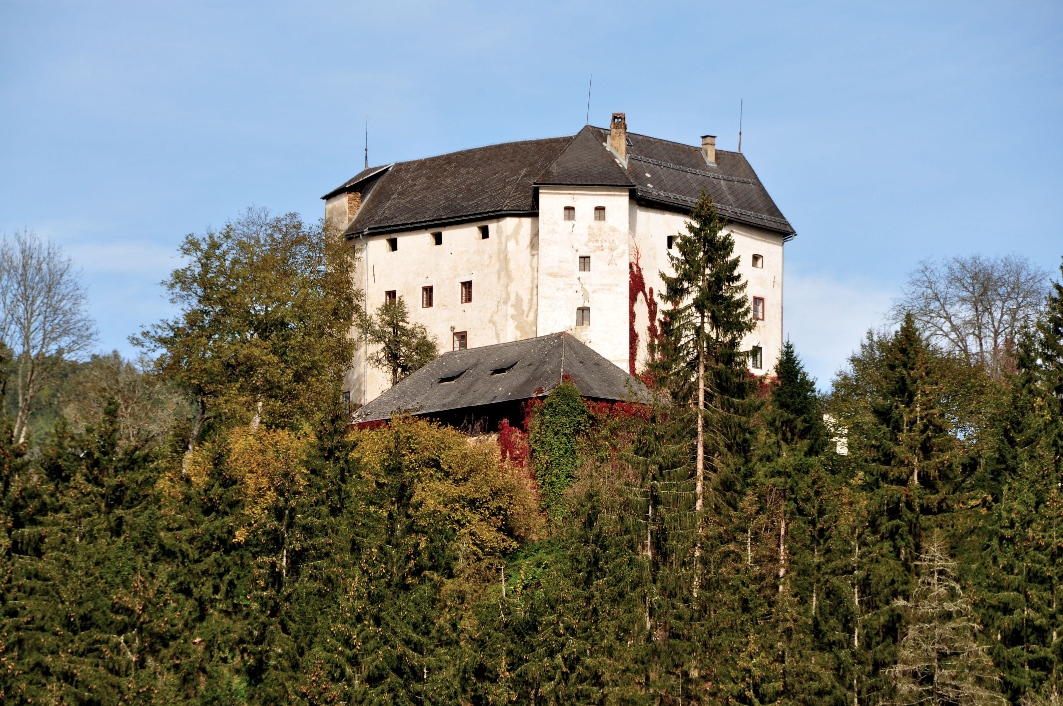 Castle Rastenfeld at Rastenfeld #1, municipality Mölbling, district Sankt Veit, Carinthia, Austria, EU